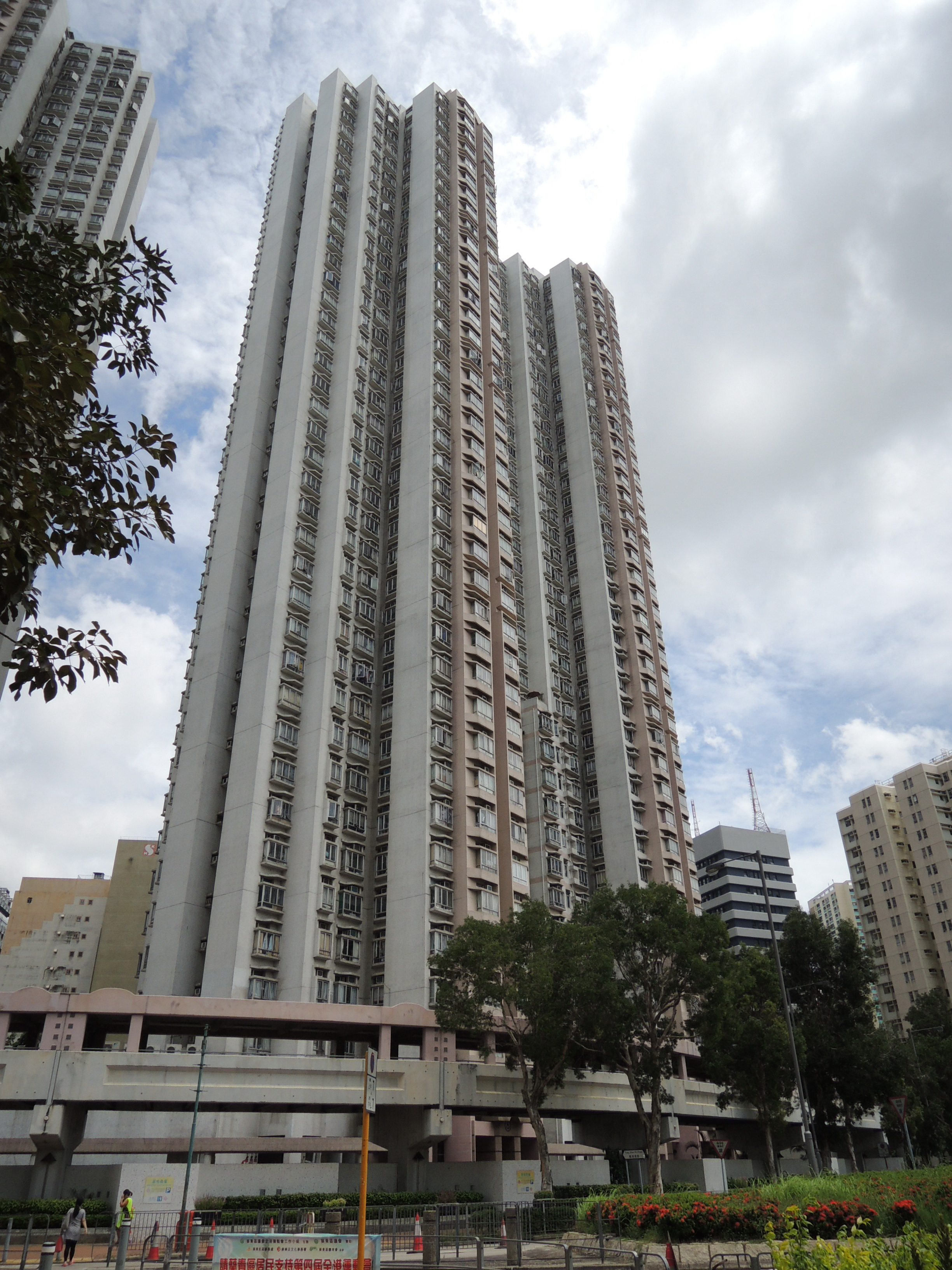 Greenfield Garden, Tsing Yi, Hong Kong.